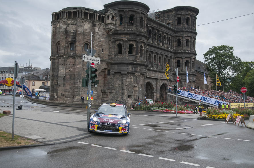 Rally Germany 2012 ADAC Rallye Deutschland,Circus Maximus,Citroen DS3 WRC,Citroen Junior WRT,Citroen Junior World Rally Team,Motorsport,Nicolas Gilsoul,Power Stage,Rally,Rallye,Rallye Deutschland,SS15,Thierry Neuville,Trier,WP15,WRC